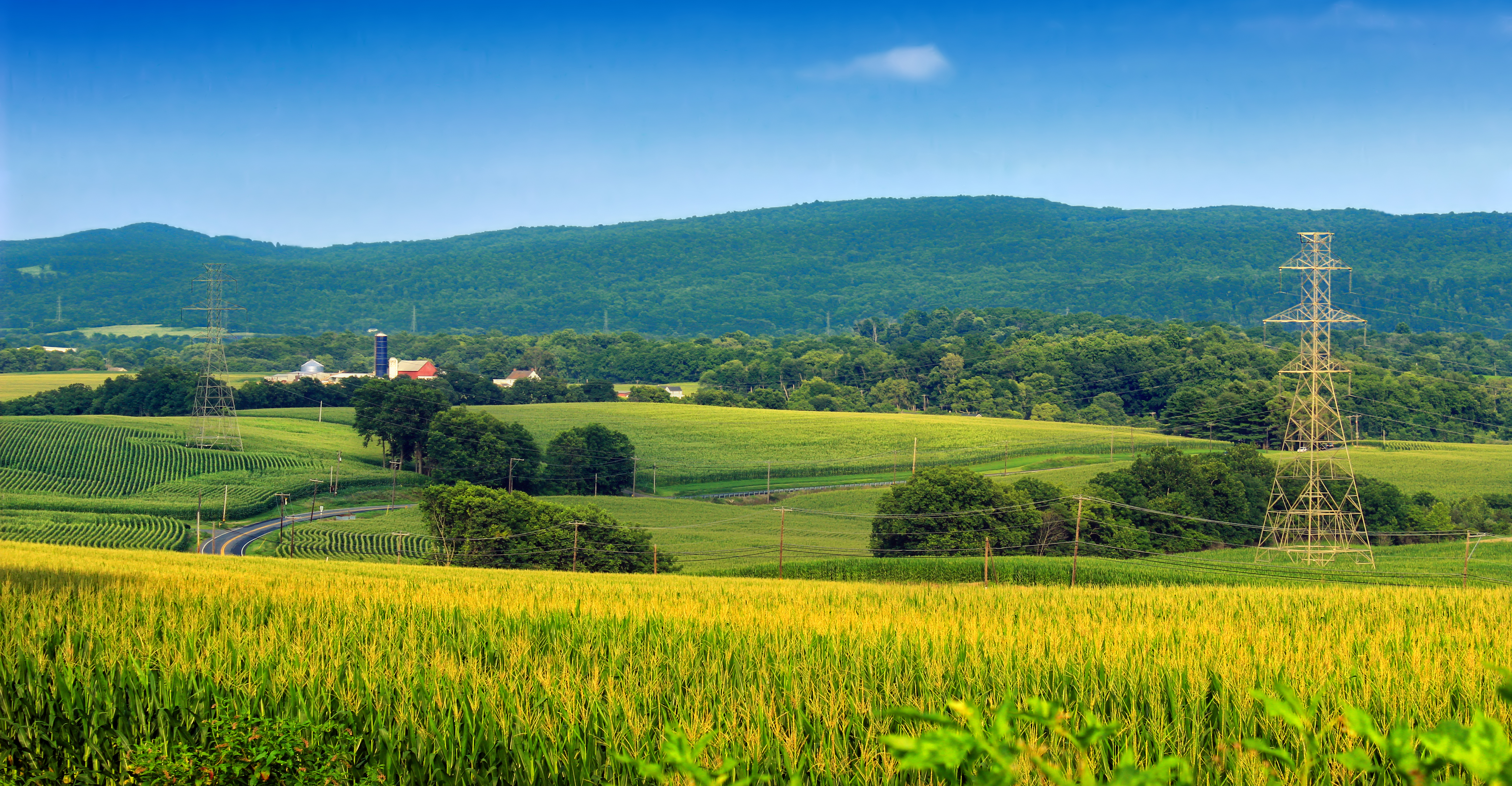 Lower Mount Bethel Township, Northampton County. From the cemetery is a fine view of the Delaware River Valley at the Northampton County–Warren County line. The ridge in the distance is Scotts Mountain.